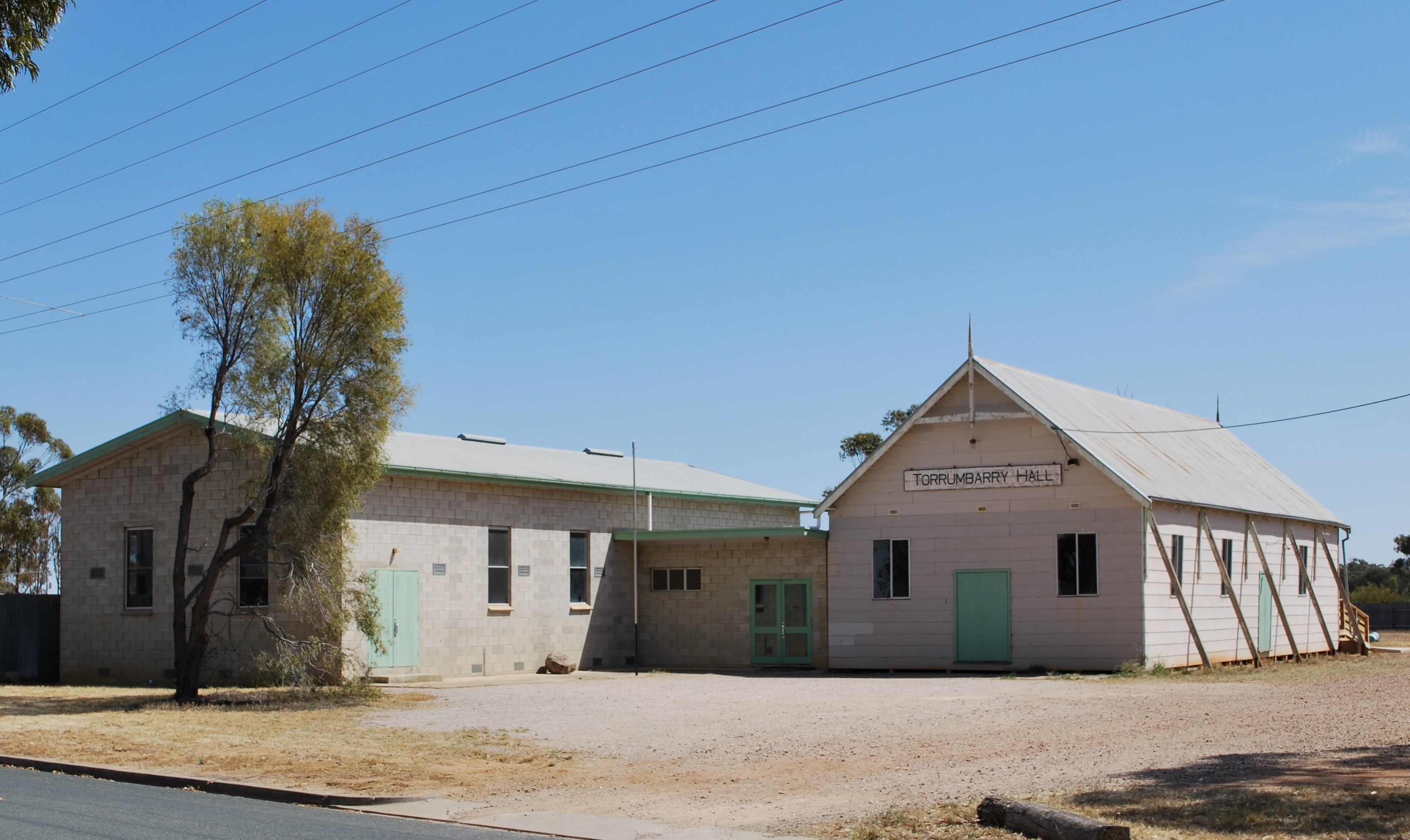 Public hall at Torrumbarry, Victoria